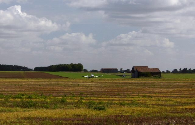 Private airstrip at Knettishall. Access to this airstrip is via a track from Norwich Lane.